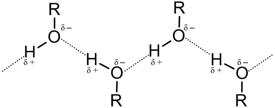 H-bond in alcohols